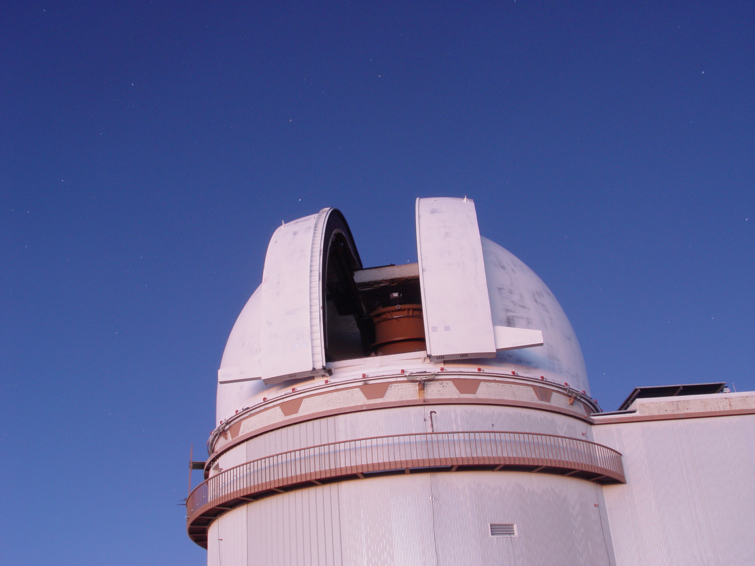 Photo of the UH88 telescope taken at sunset on Mauna Kea.